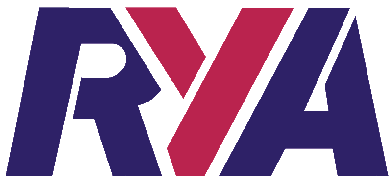 This is the Royal Yachting Association logo. Created by myself. Contact me for PSD.